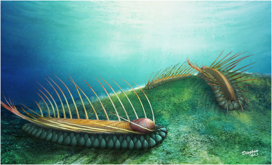 Reconstruction of Orthrozanclus elongata Zhao et Smith in life.